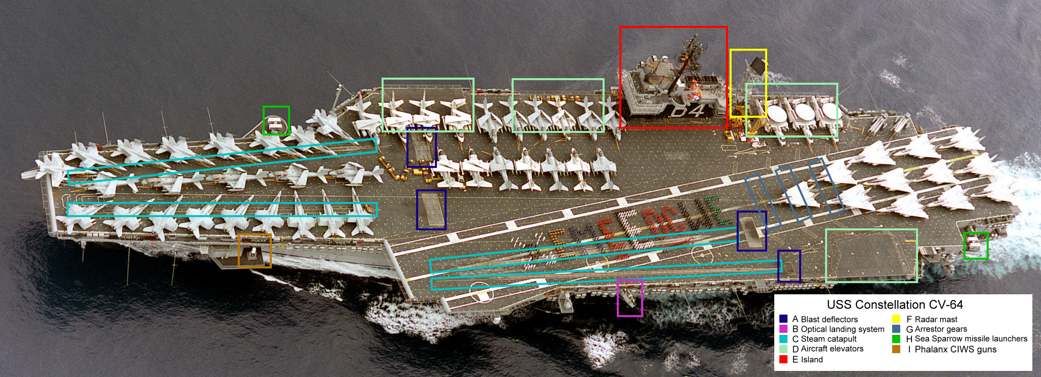 Structure of USS Constellation